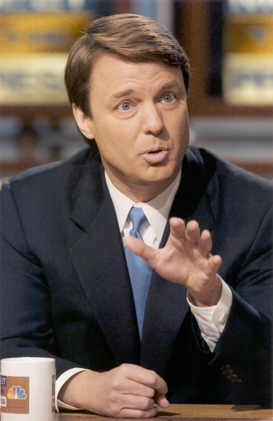 John Edwards on the TV show Meet The Press.